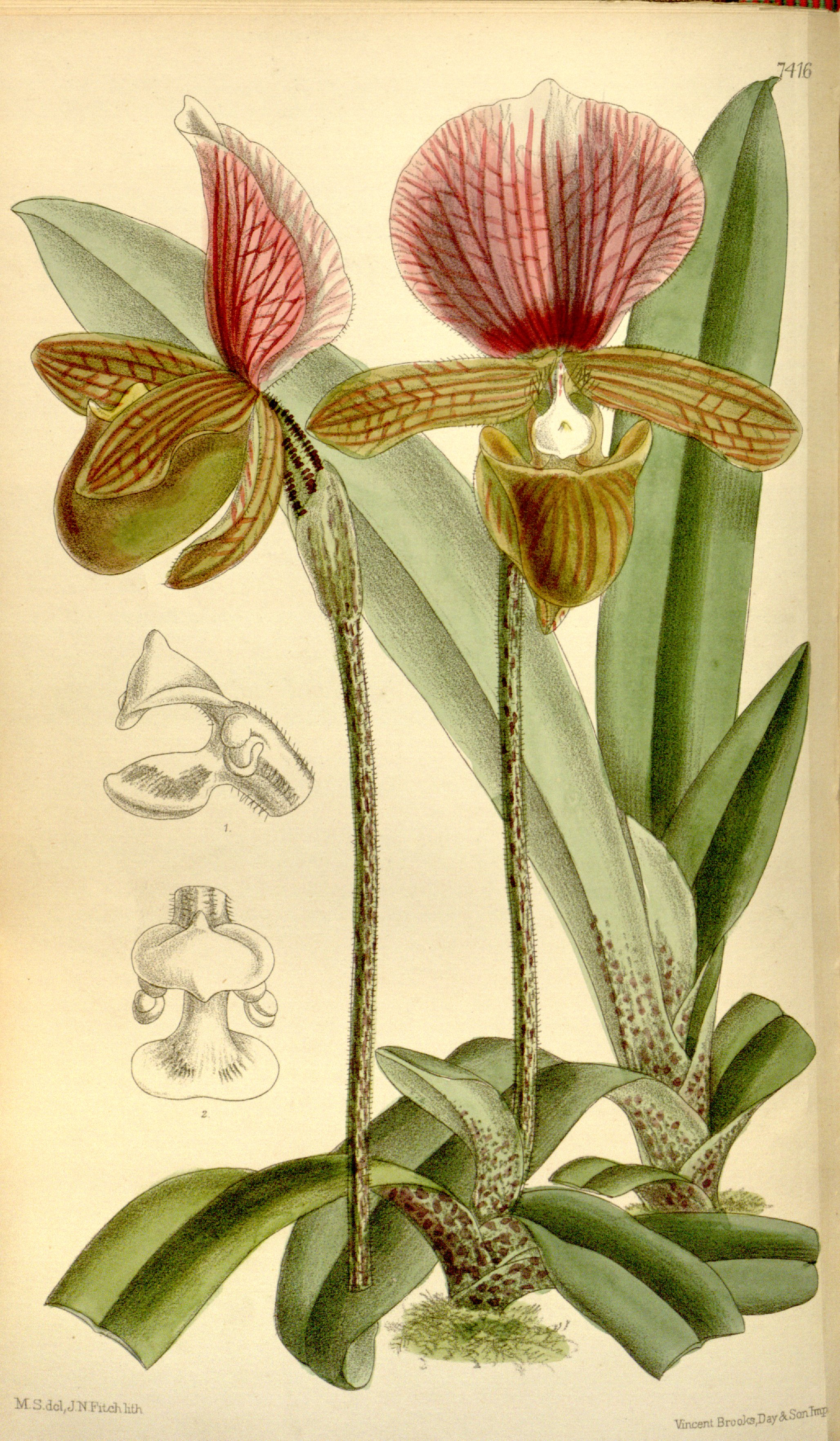 Illustration of Paphiopedilum charlesworthii (as syn. Cypripedium charlesworthii)